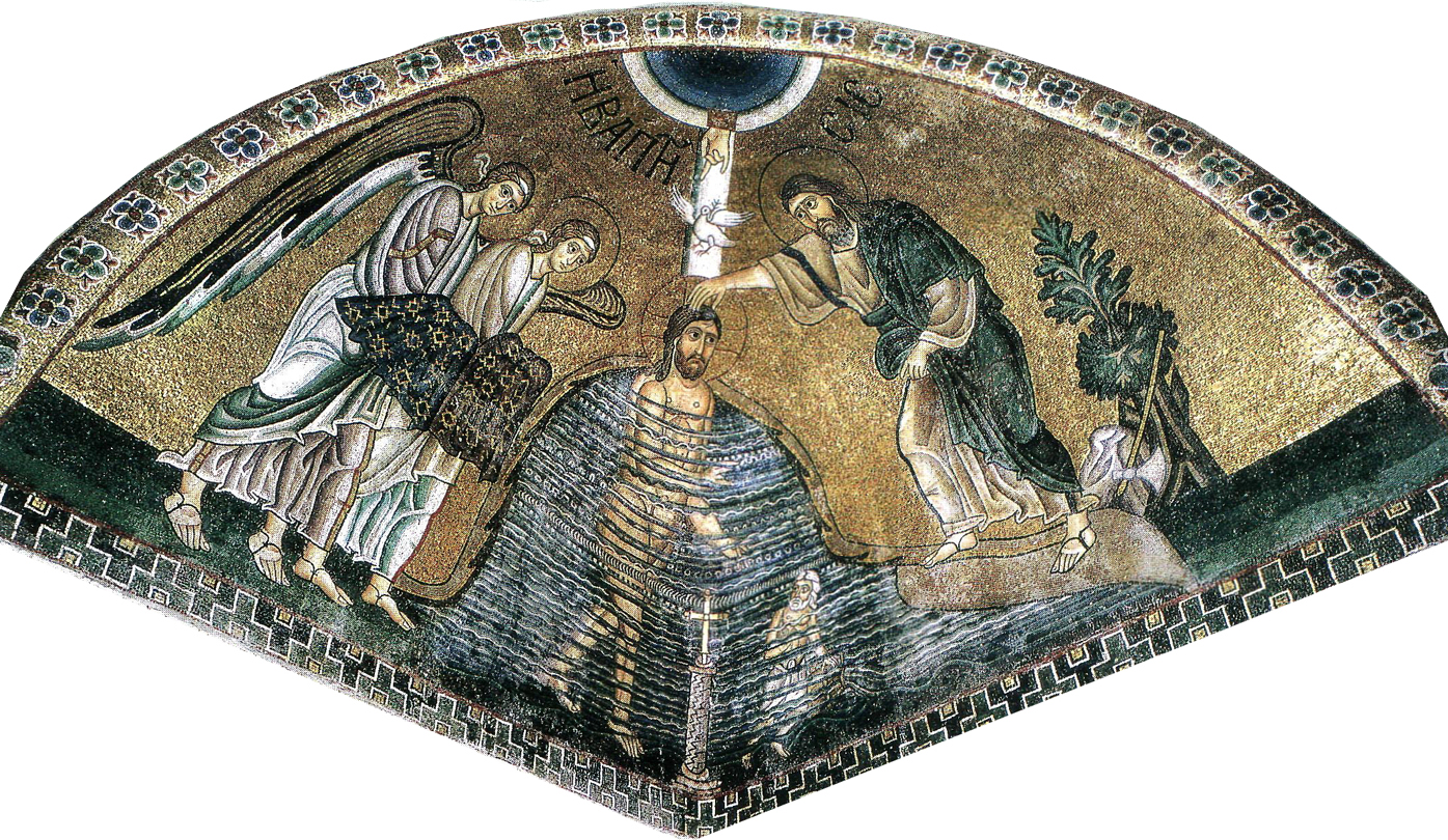 Mosaics in Hosios Loukas Monastery, Boeotia, Greece